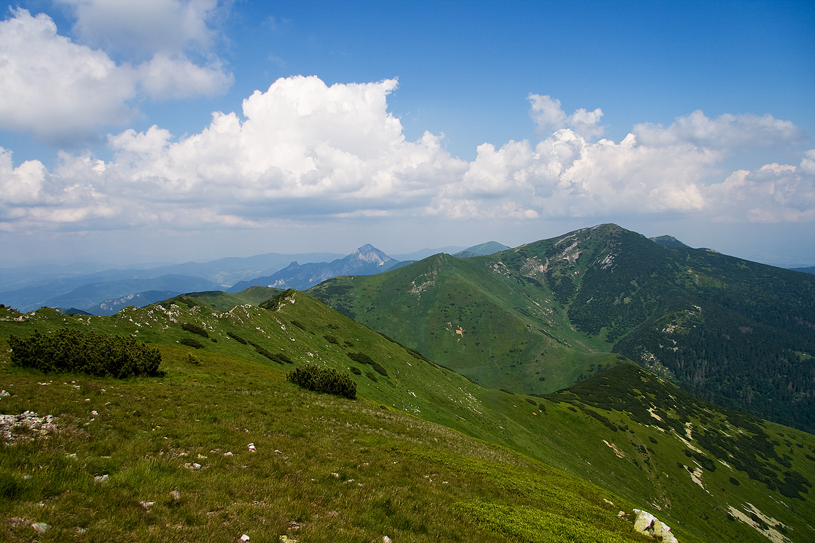 Velky Fatransky Krivan